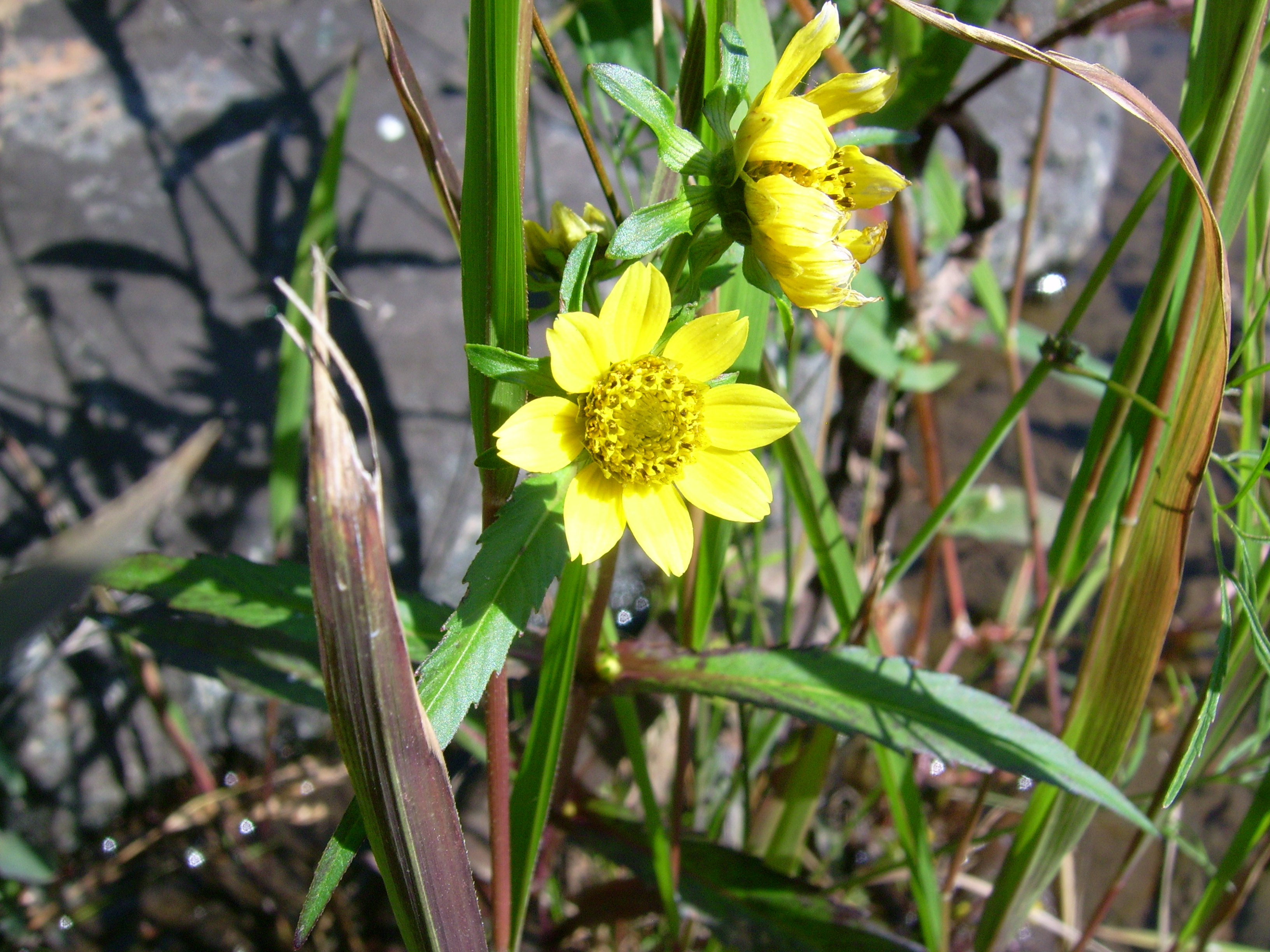 Nodding bur marigold (Bidens cernua), Whitefish Island, Batchewana First Nation